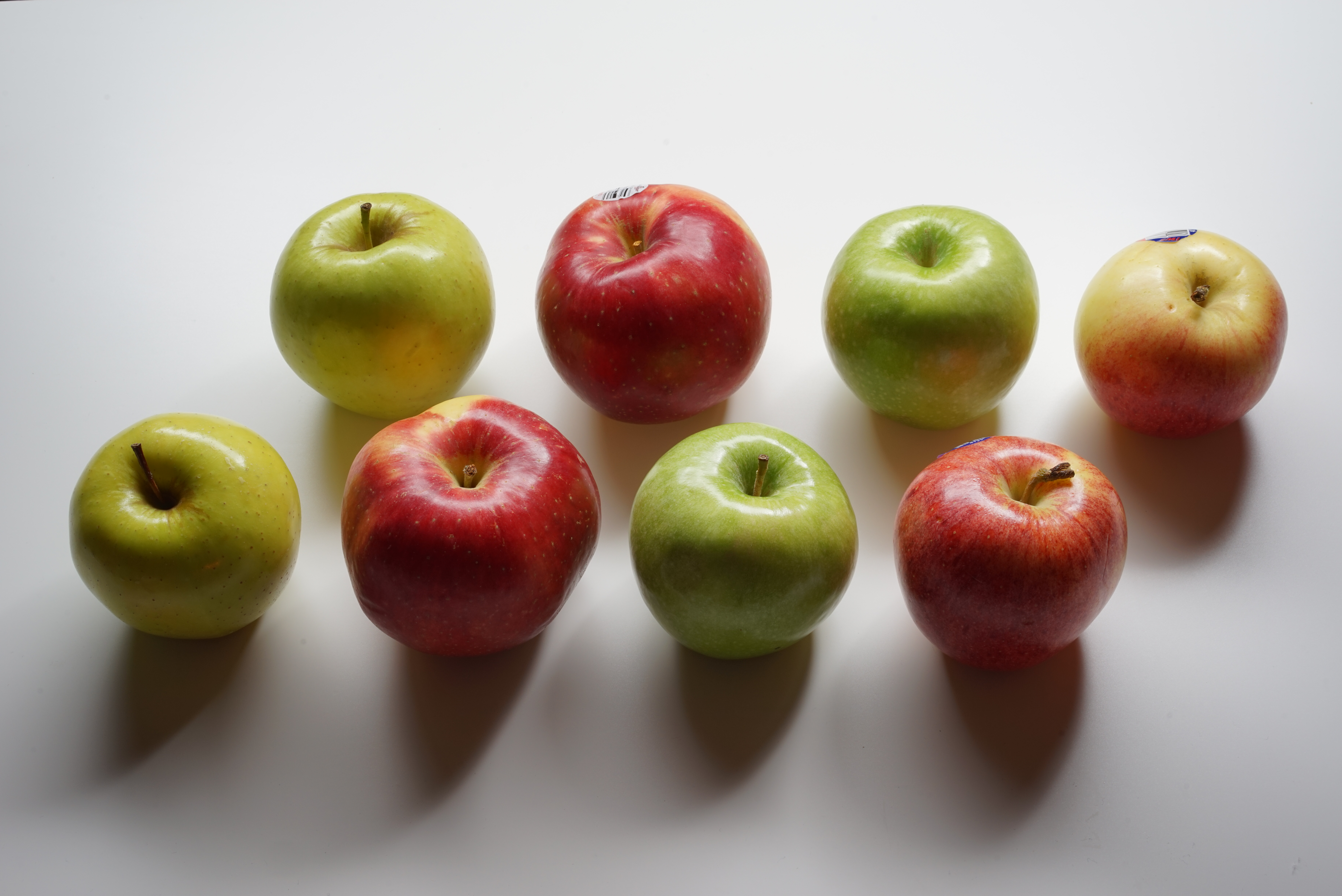 Several cultivars of apples purchased in Pittsburgh, PA. From left to right: Golden Delicious, SweeTango, Granny Smith, and Gala.